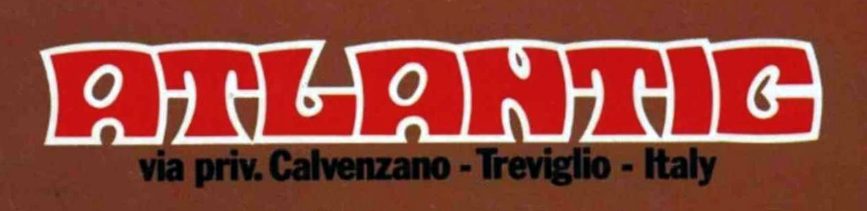 later Logo of Atlantic ~1972, toy soldiers